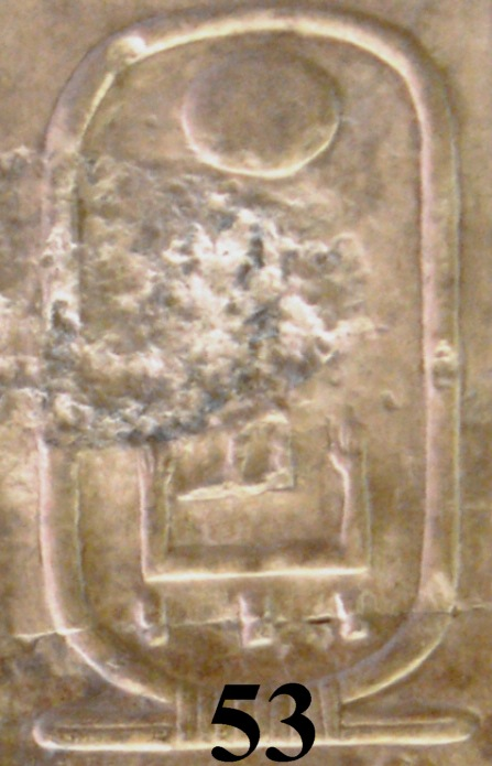 Qakare Ibi's cartouche num53 on the Abydos kign list